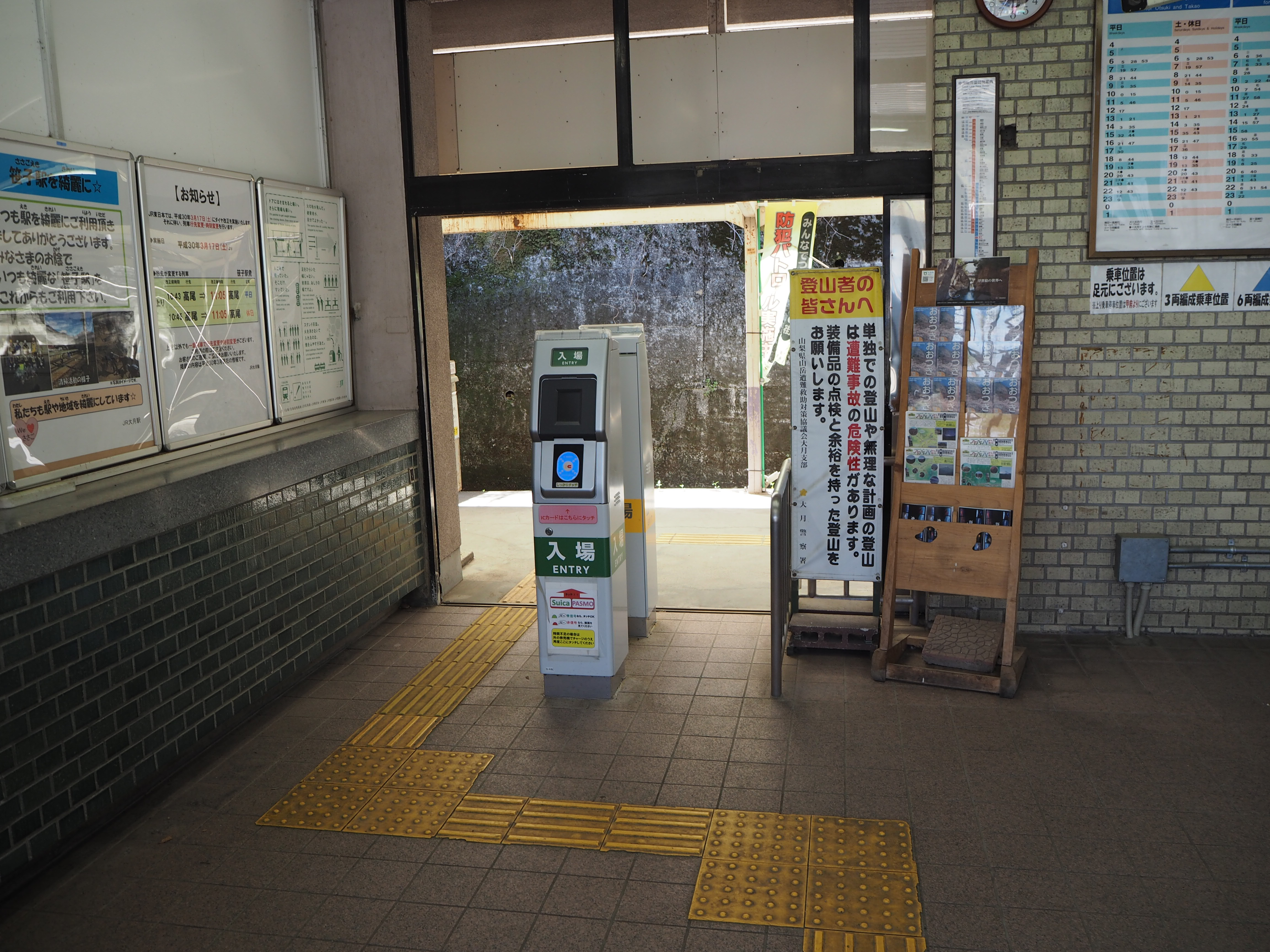 Ticket barriers of Sasago Station